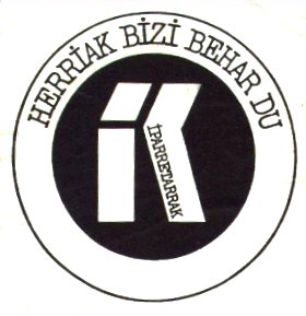 The logo of Iparretarrak, a basque armed organization